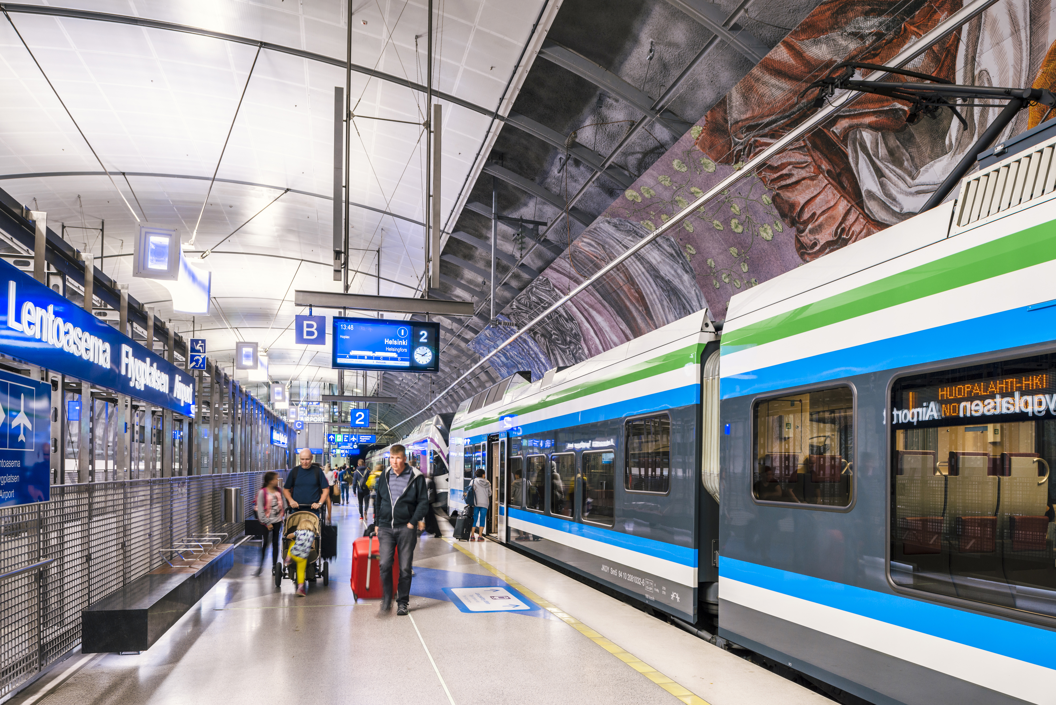 Helsinki Airport station in Vantaa on 4 July 2017.